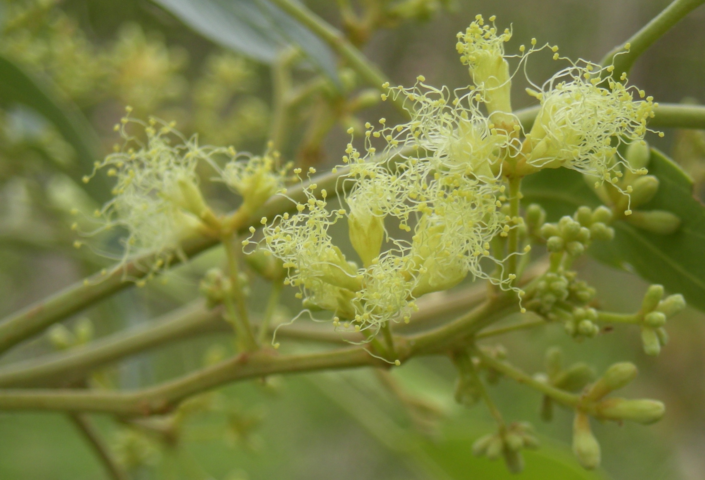 Albizia canescens (Belmont Siris) flowers. Mt. Etna National Park. Qld.